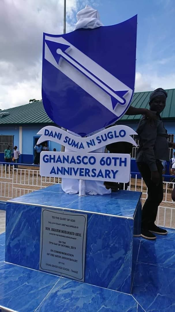 The plaque of Ghana Senior High School, Tamale